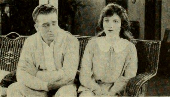 Still from the American film Dusk to Dawn (1922) with Jack Mulhall and Florence Vidor, page 67 of the November 1922 Photoplay.